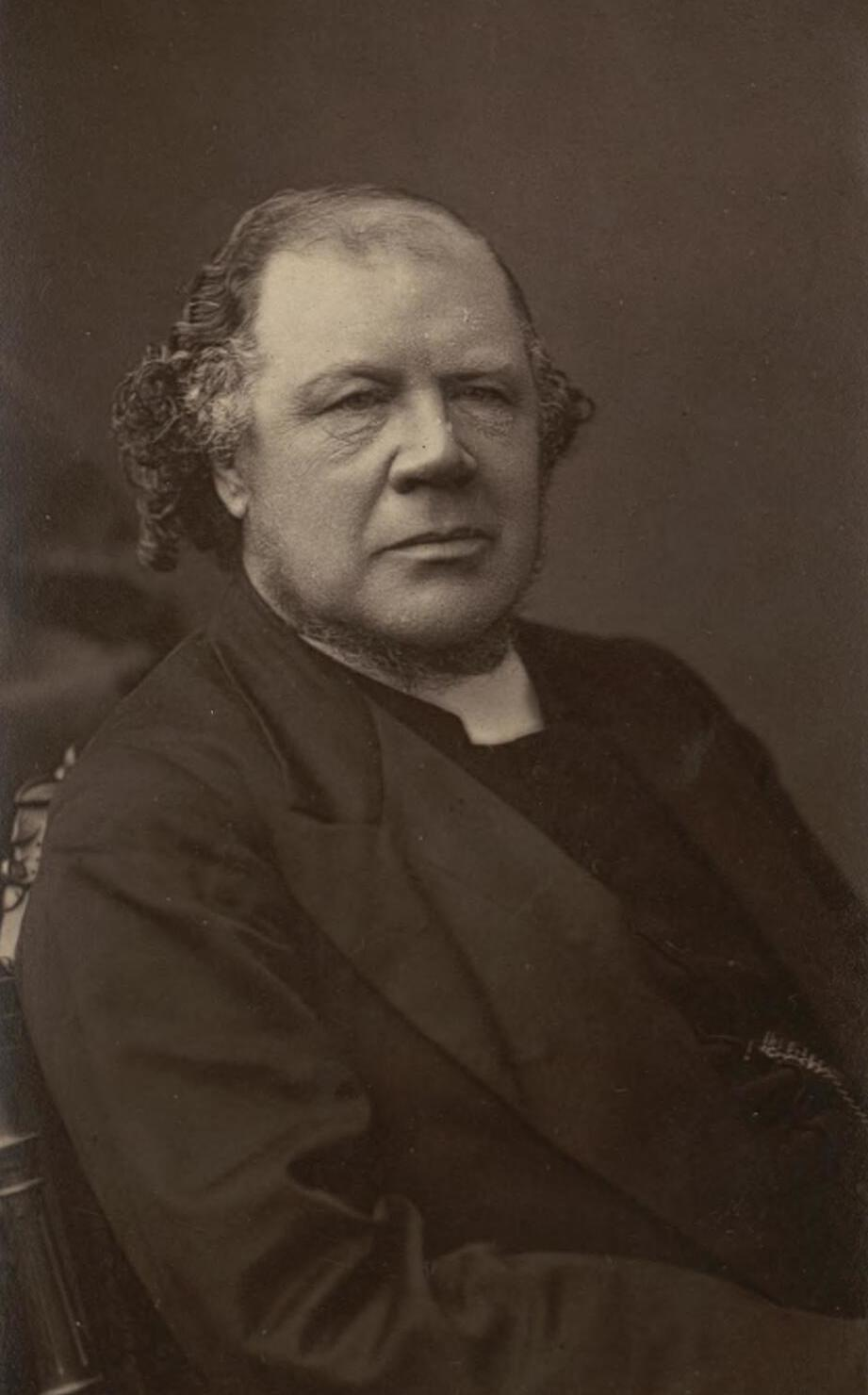 A portrait from the Welsh Portrait Collection at the National Library of Wales. Depicted person: William Morley Punshon – English Nonconformist minister